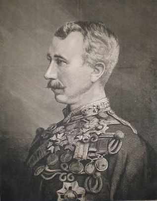 Major General Sir Garnet Joseph Wolseley KCMG CB, engraving from Illustrated London News, 1874, portrait of Major General Wolseley, later Field Marshal Lord Wolseley (1833–1913)